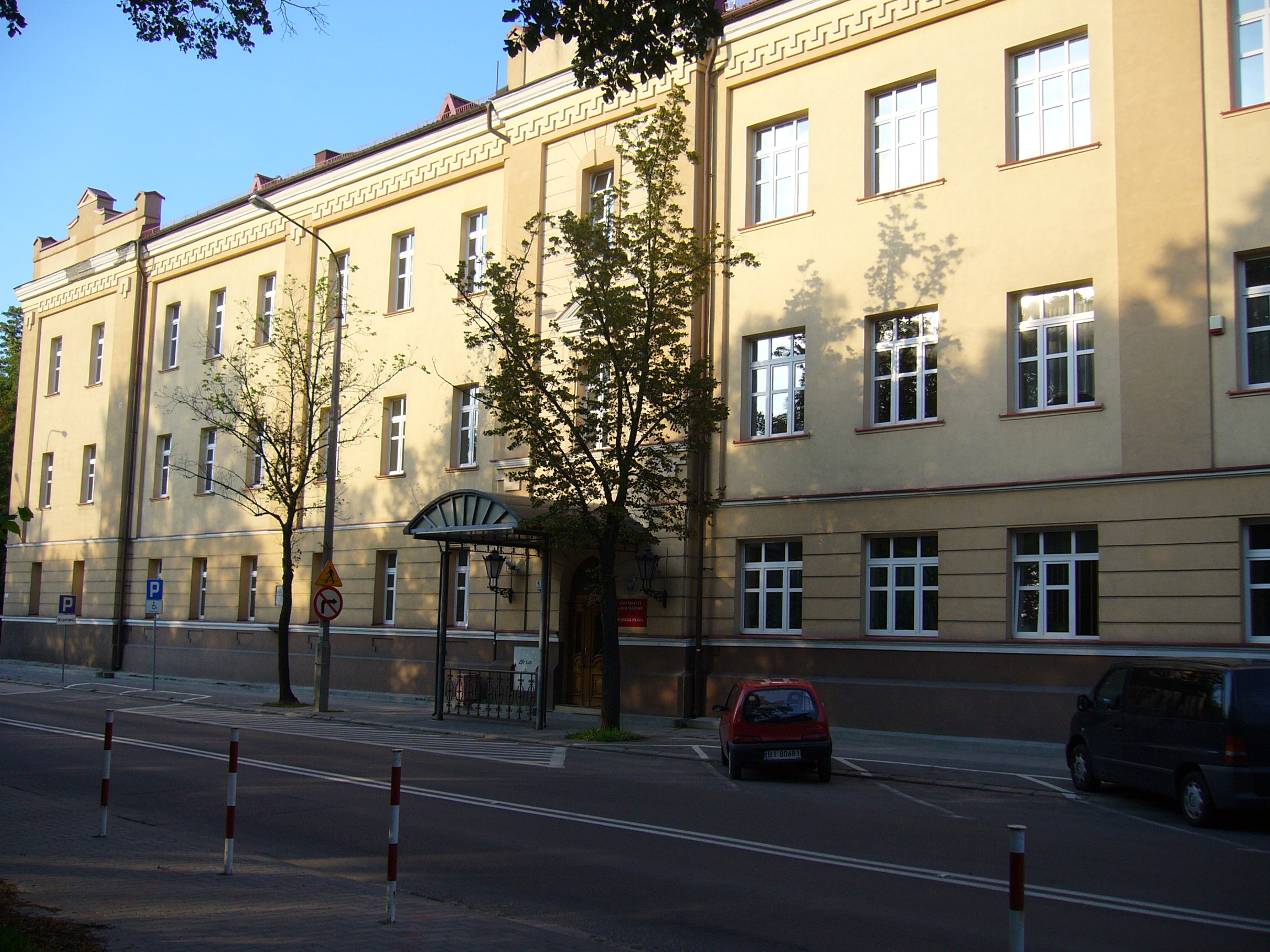 Building of University of Białystok Faculty of Law, Mickiewicza 1 street.